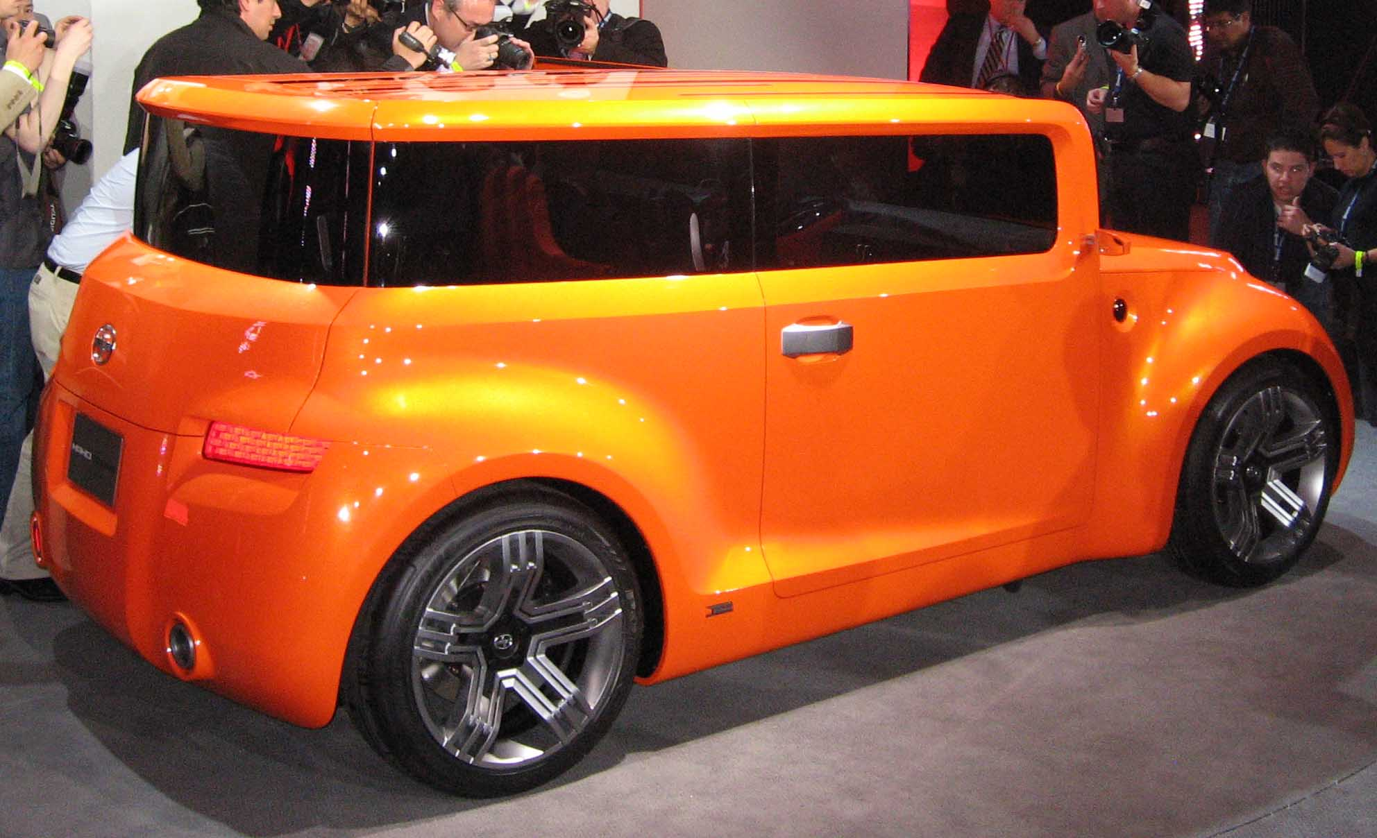 Scion Hako concept photographed at the 2008 New York Auto Show.